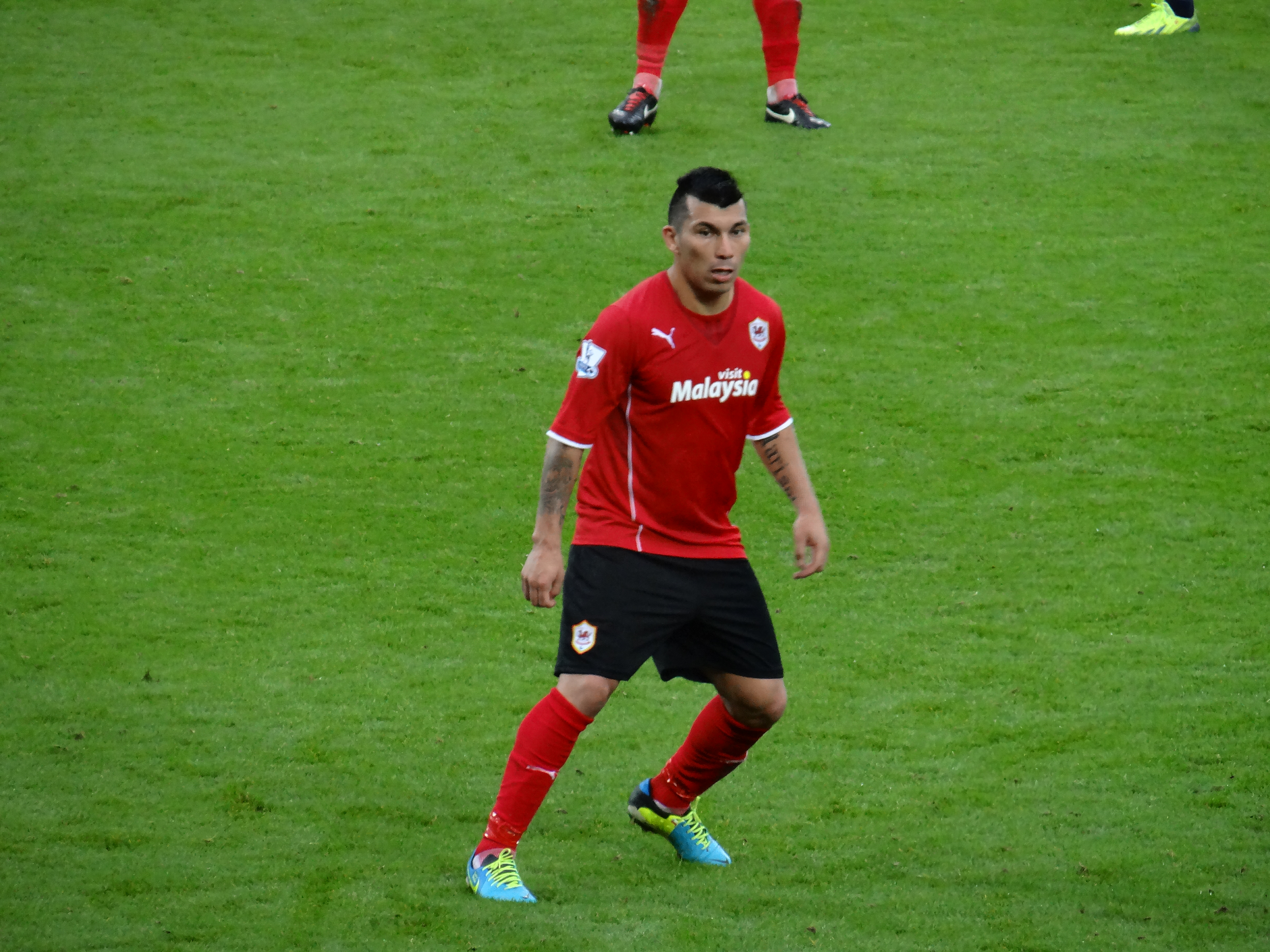 Gary Medel playing for Cardiff City in 2013.